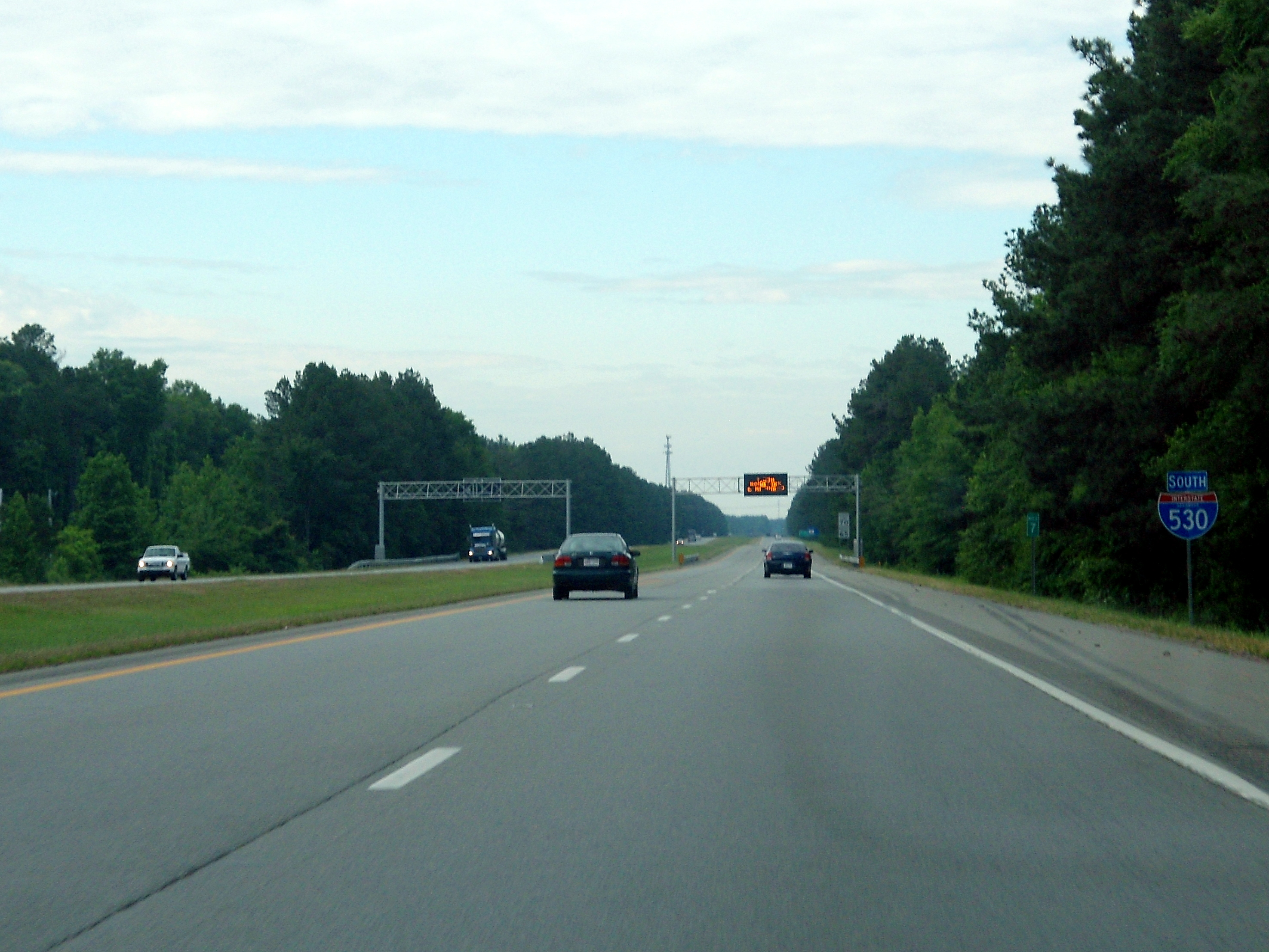 Interstate 530 in Pulaski County, Arkansas. Photo is southbound. US Route 167 also concurs with this route south but it is unsigned.